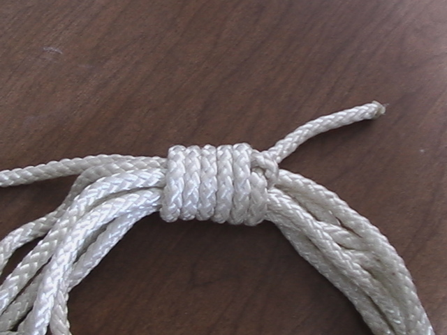 Alpine Coil Knot tied in nylon rope, 5 of 5 step by step images